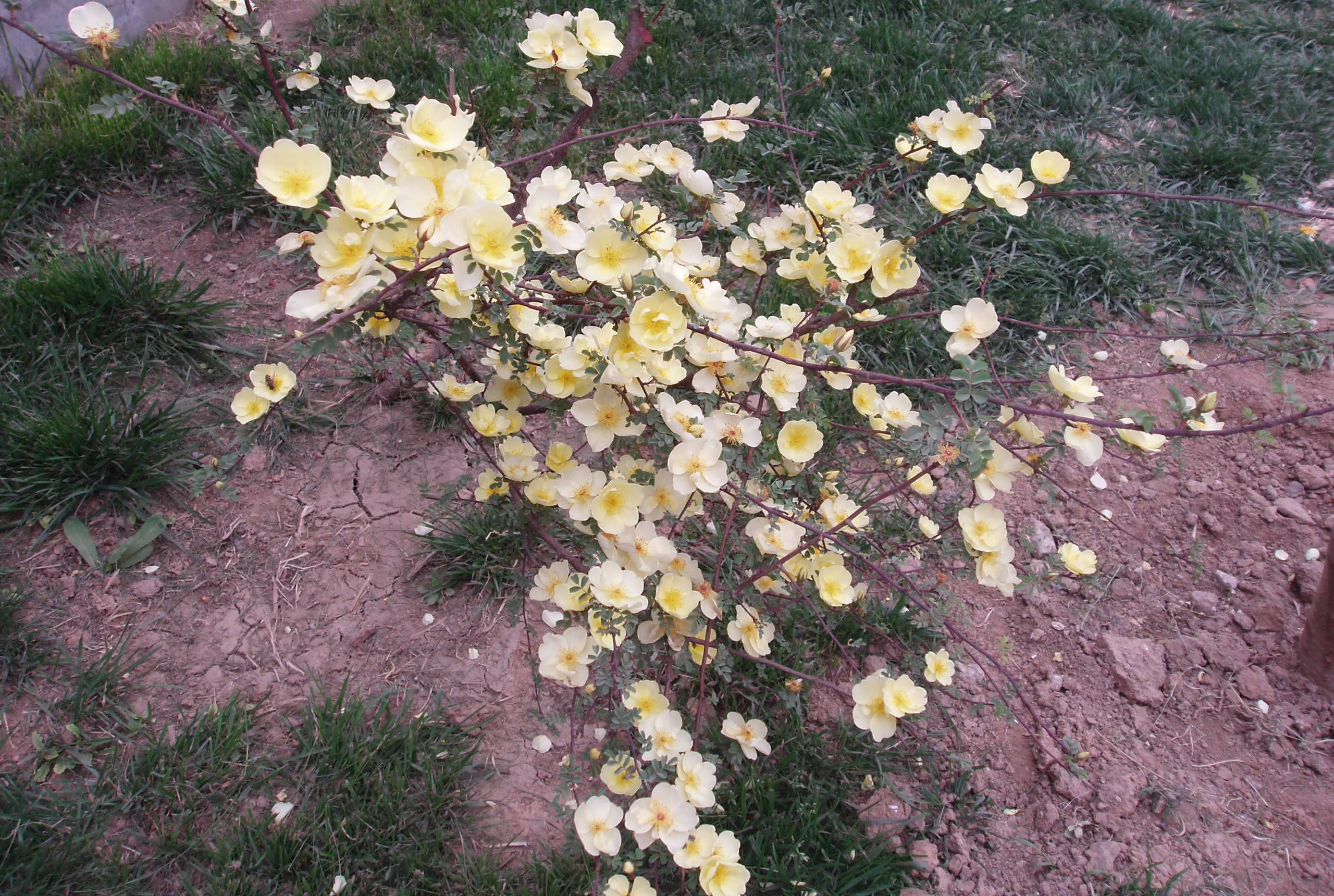 Canary bird flowers